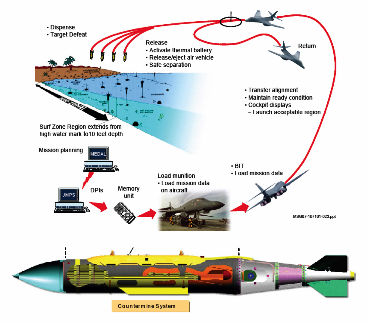 Contermine System (CMS)